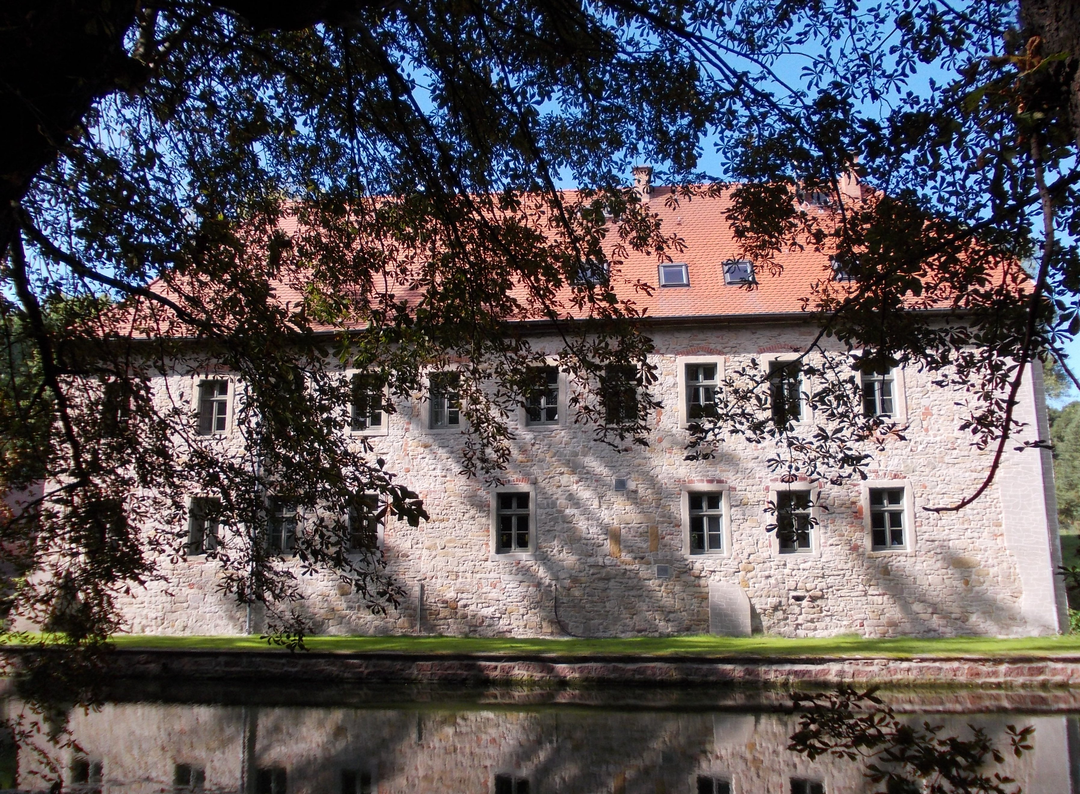 Moated castle in Bonau (Teuchern, district of Burgenlandkreis, Saxony-Anhalt)